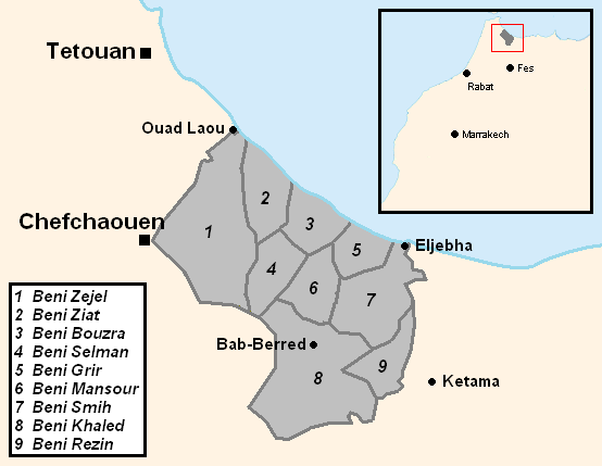 Map of Ghomara tribes' territory